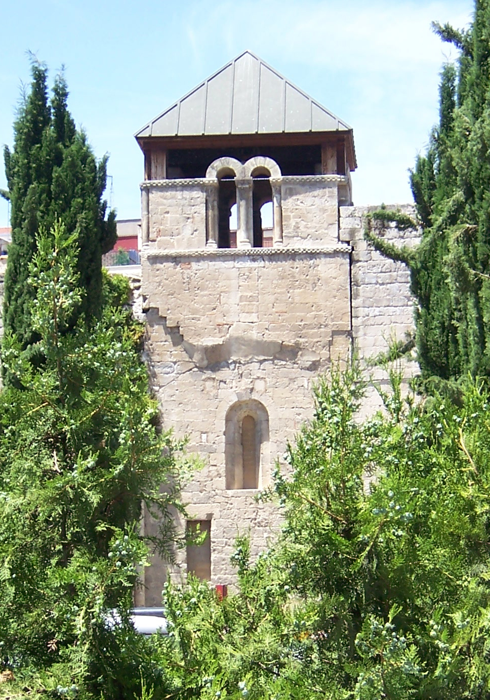 Ruins of the ancient collegiate church of Santa María (13th century) in Valladolid (Spain). Debris of the romanic tower (with ornaments) which belonged to a previous collegiate church ordered by the earl of Ansúrez, founder of the city.